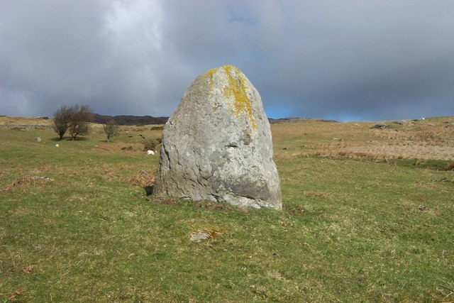 Cae Coch standing stone. A Megalithic monument stone known as the Cae Coch standing stone below Tal Y Fan mountain